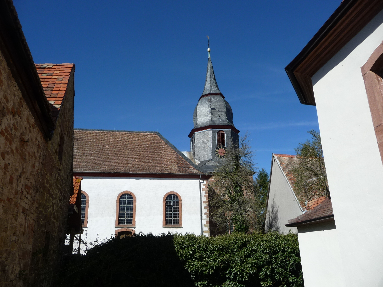 church of Kleinfischlingen in Rhineland-Palatinate, Germany